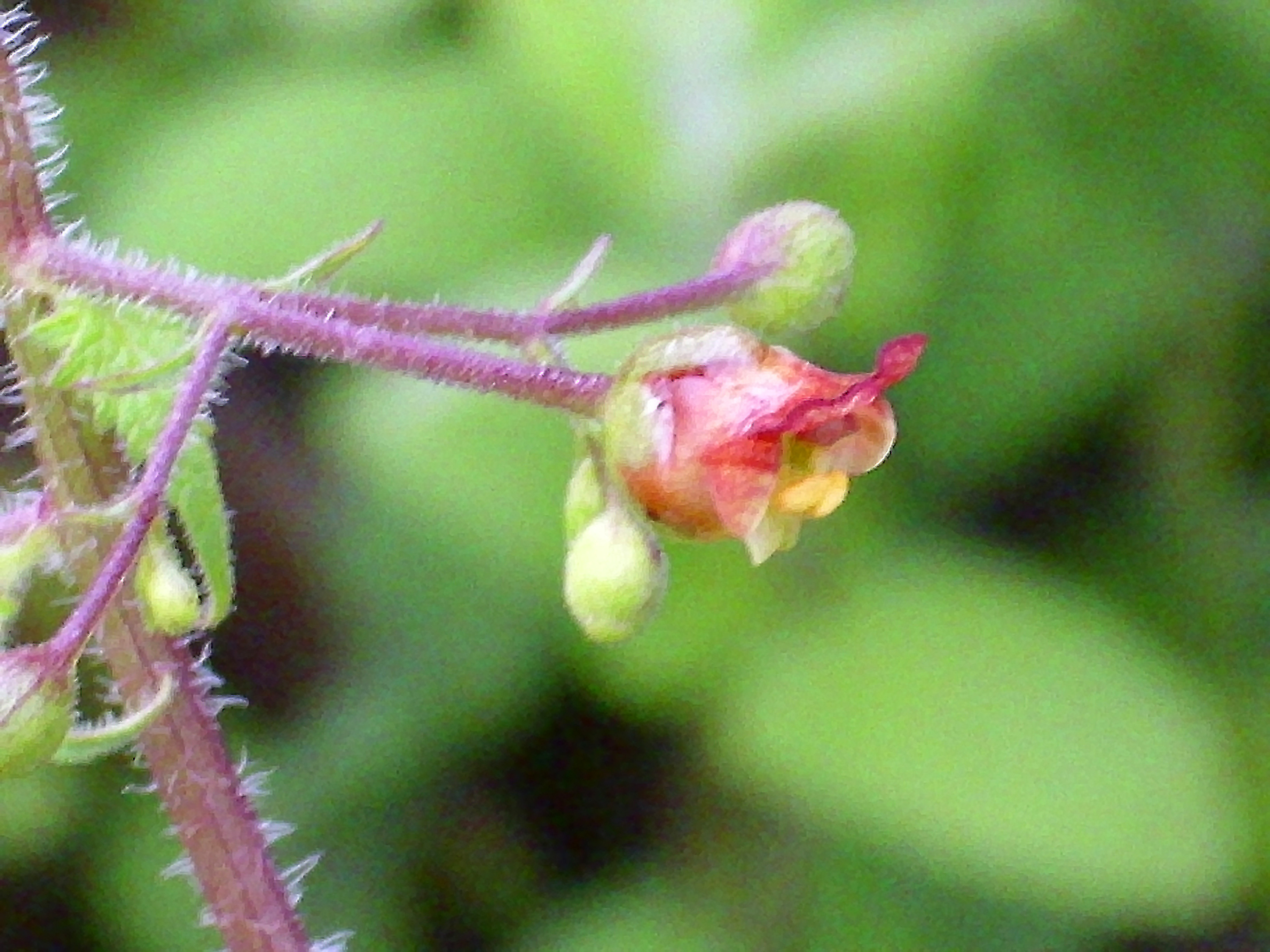 Scrophularia oxyrhyncha flower side view, "Barquizuelas" Sierra Madrona, Spain